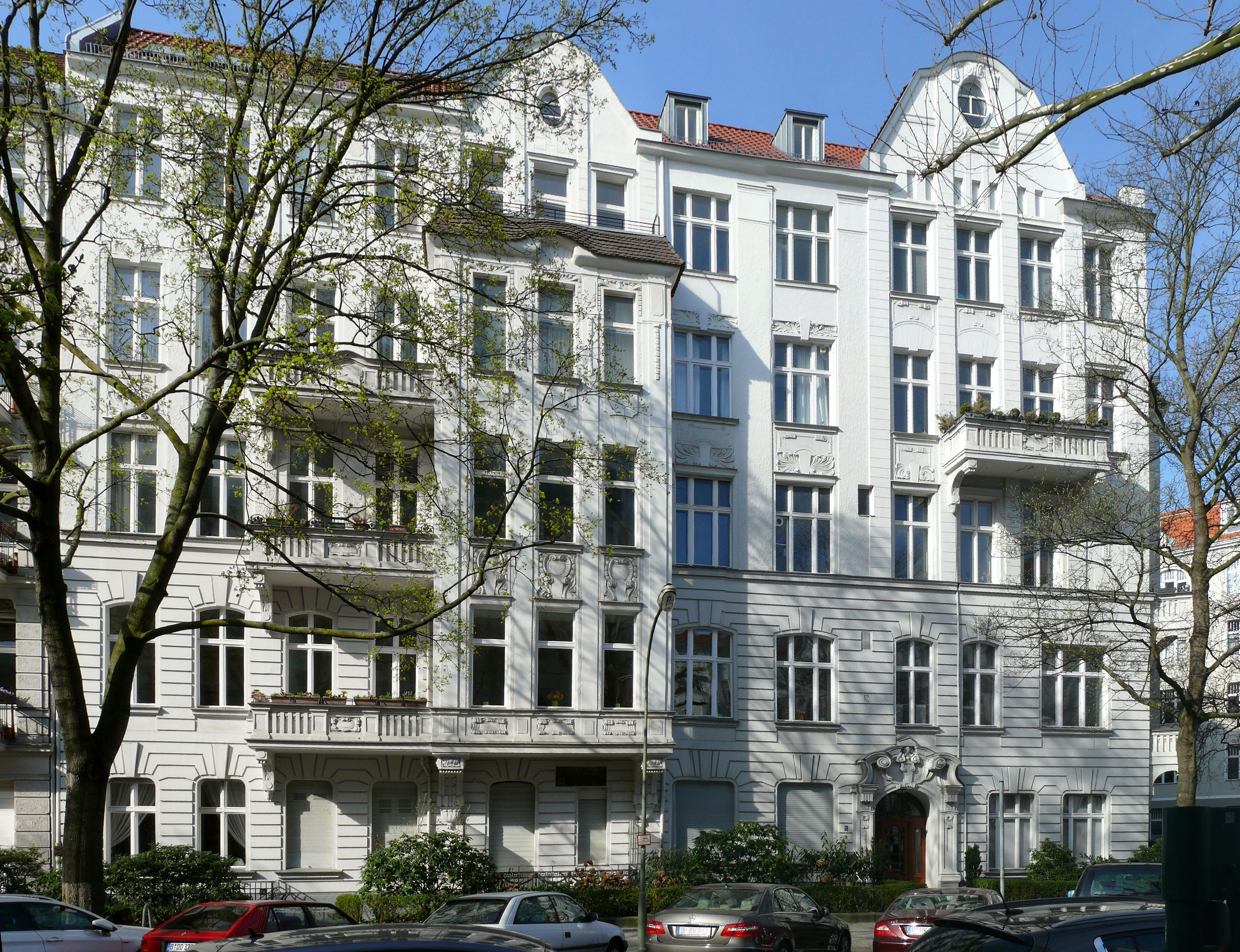 Berlin-Charlottenburg Giesebrechtstraße 5-001